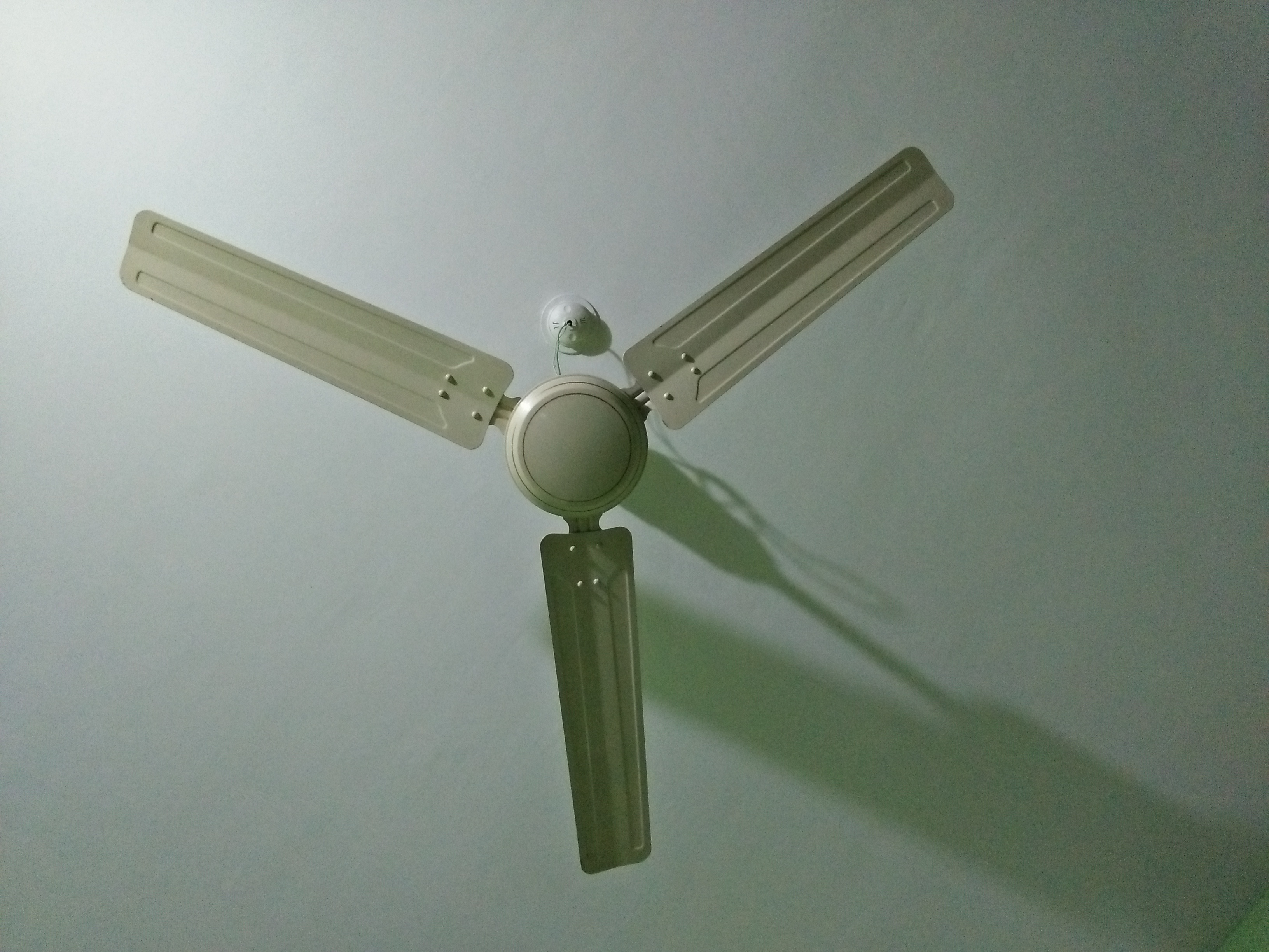 Ceiling fan of white color ଓଡ଼ିଆ: ଧଳା ରଙ୍ଗର ଉପର ପଙ୍ଖା